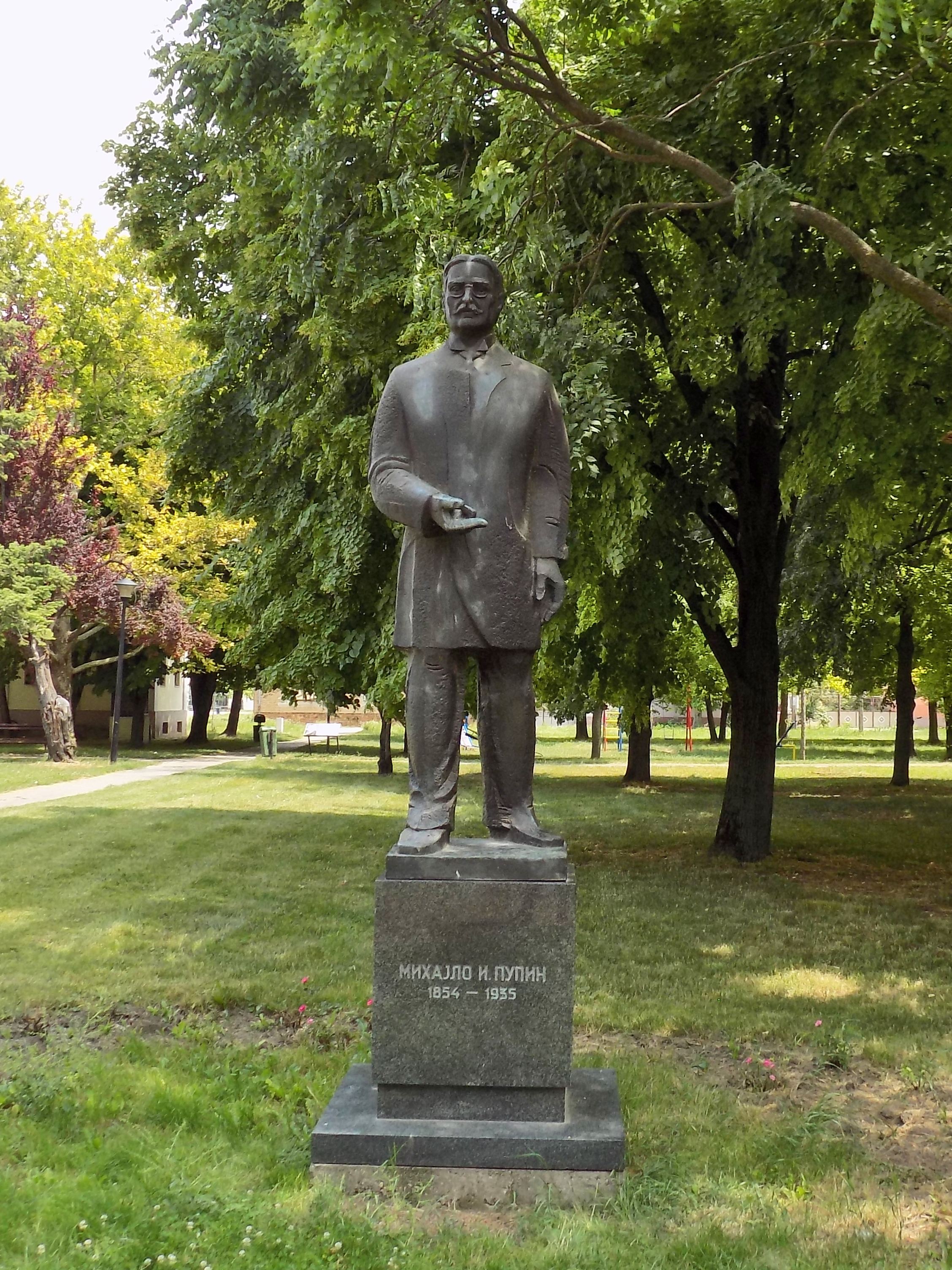 People's House of Mihajlo I. Pupin, Pupin's endowment in his native village of Idvor - a monument to Mihajlo Pupin in the park in front of the endowment. The monument is the work of sculptor Aleksandar Zarin